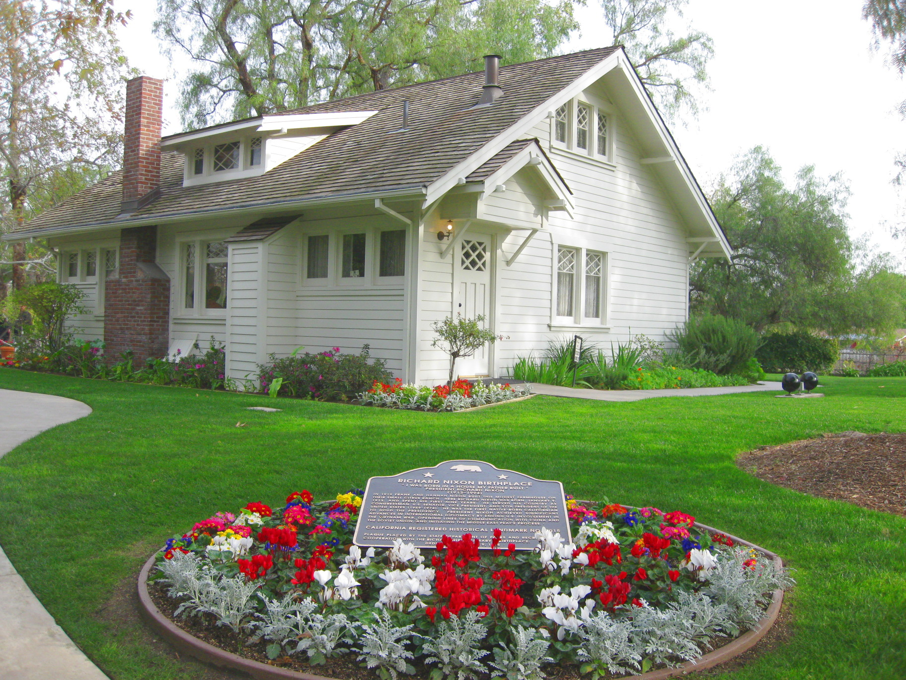 Birthplace of Richard Nixon — where he was born and lived from 1913 to 1922, when it was located elsewhere in Yorba Linda, California. It was relocated to the Richard Nixon Presidential Library, also in Yorba Linda.